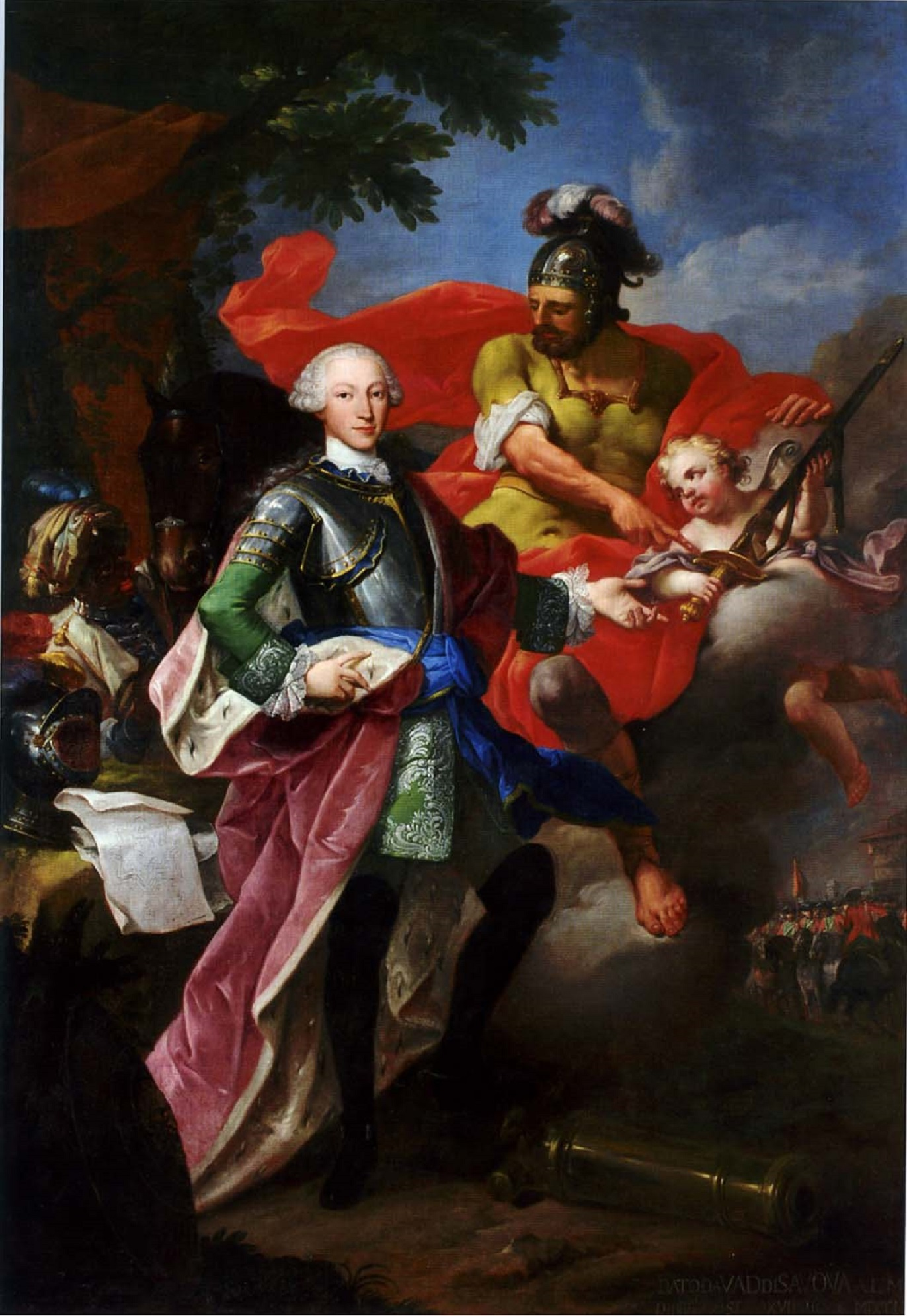 Portrait of Vittorio Amedeo, when Duke of Savoy